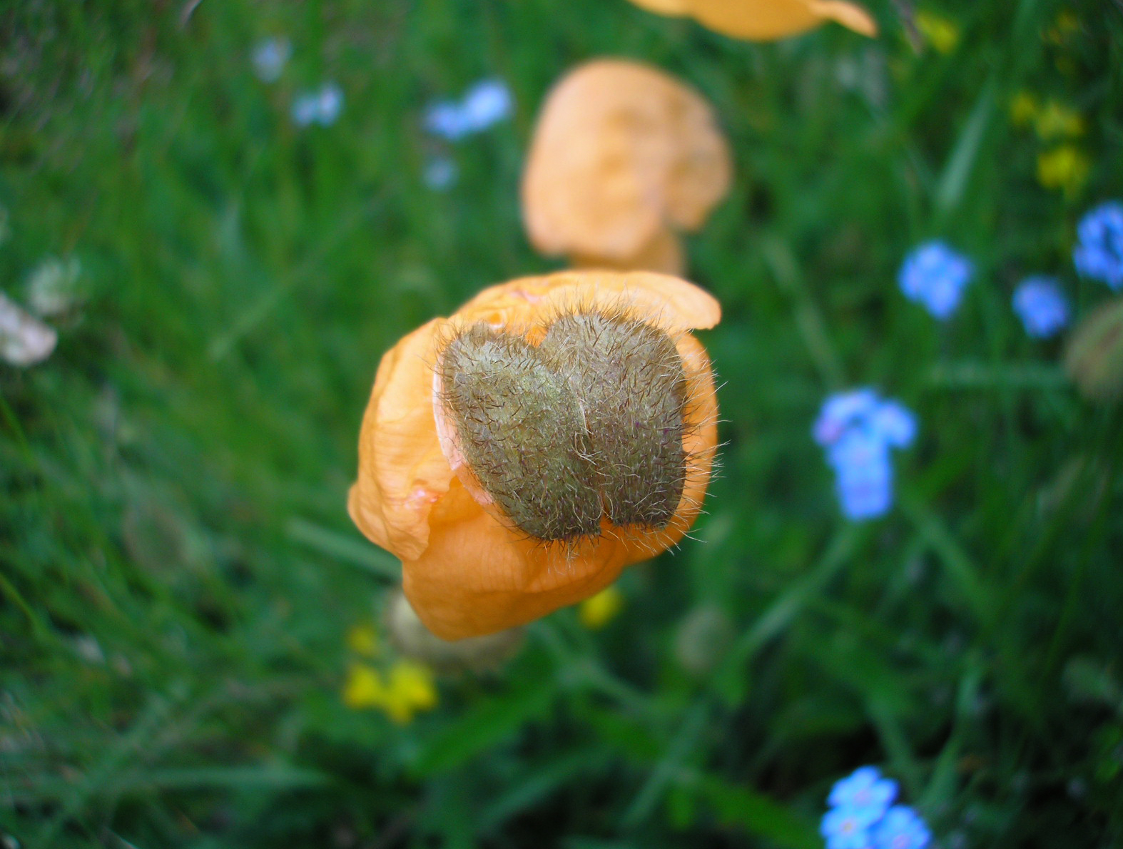 Papaver nudicaule (Iceland Poppy) with bud capsule remains on a flower.